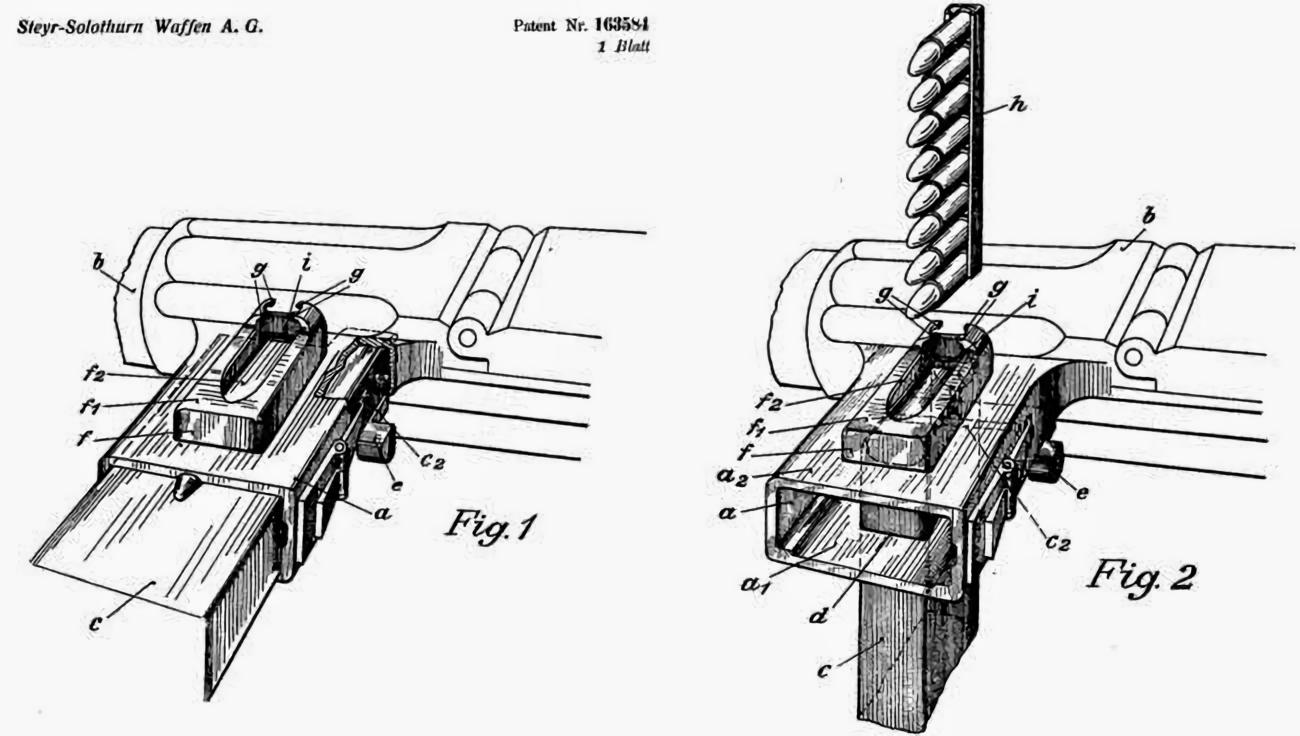 Drawing from original patent, covering S1-100 integral magazine loading device.